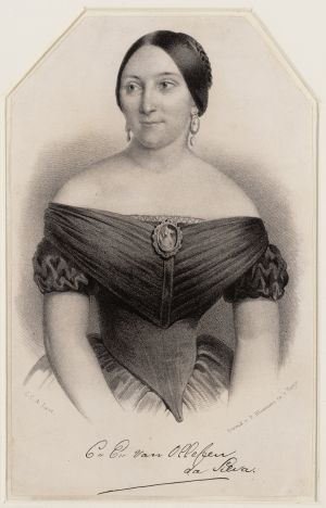 Portrait of Dutch actress Christina van Ollefen-da Silva (Carel Last, without date).